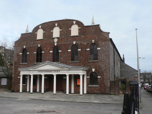 Poole: United Reformed Church This large church stands on the corner of Lagland and Skinner Streets, and is dated 1777 on the motif in the centre.